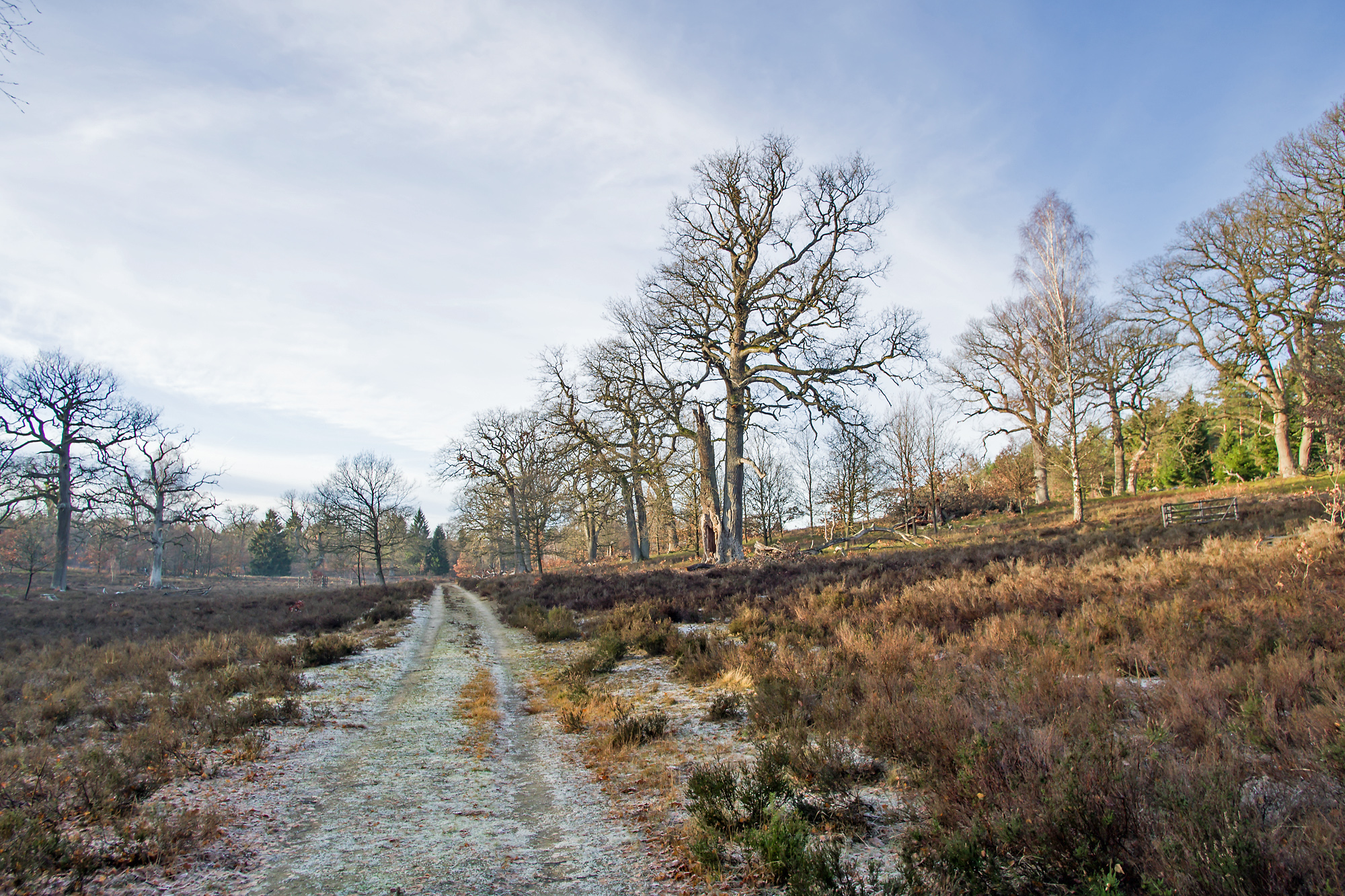 Nature reserve "Breeser Grund" in the forest "Göhrde". District Lüchow-Dannenberg, north-eastern Lower Saxony, Germany.